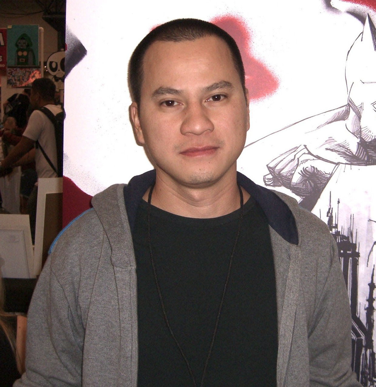 Comic book creator Dustin Nguyen, at the New York Comic Convention in Manhattan, October 9, 2010. Photo by Luigi Novi. This photo may be used, modified and published for any purpose, only if a easily visible credit to the photographer is placed near the photo in each instance in which it is used. (See licensing information below.) Publication of this photo without this proper attribution constitute copyright infringement. For more information on my photos, you can contact me here.